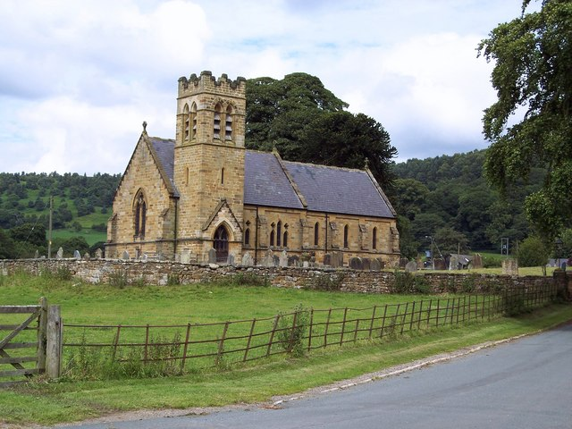 The Church of St Wilfrid, Kirby Knowle Built in 1873, the very traditional building with its tower over the porch seems always to have been part of the landscape.